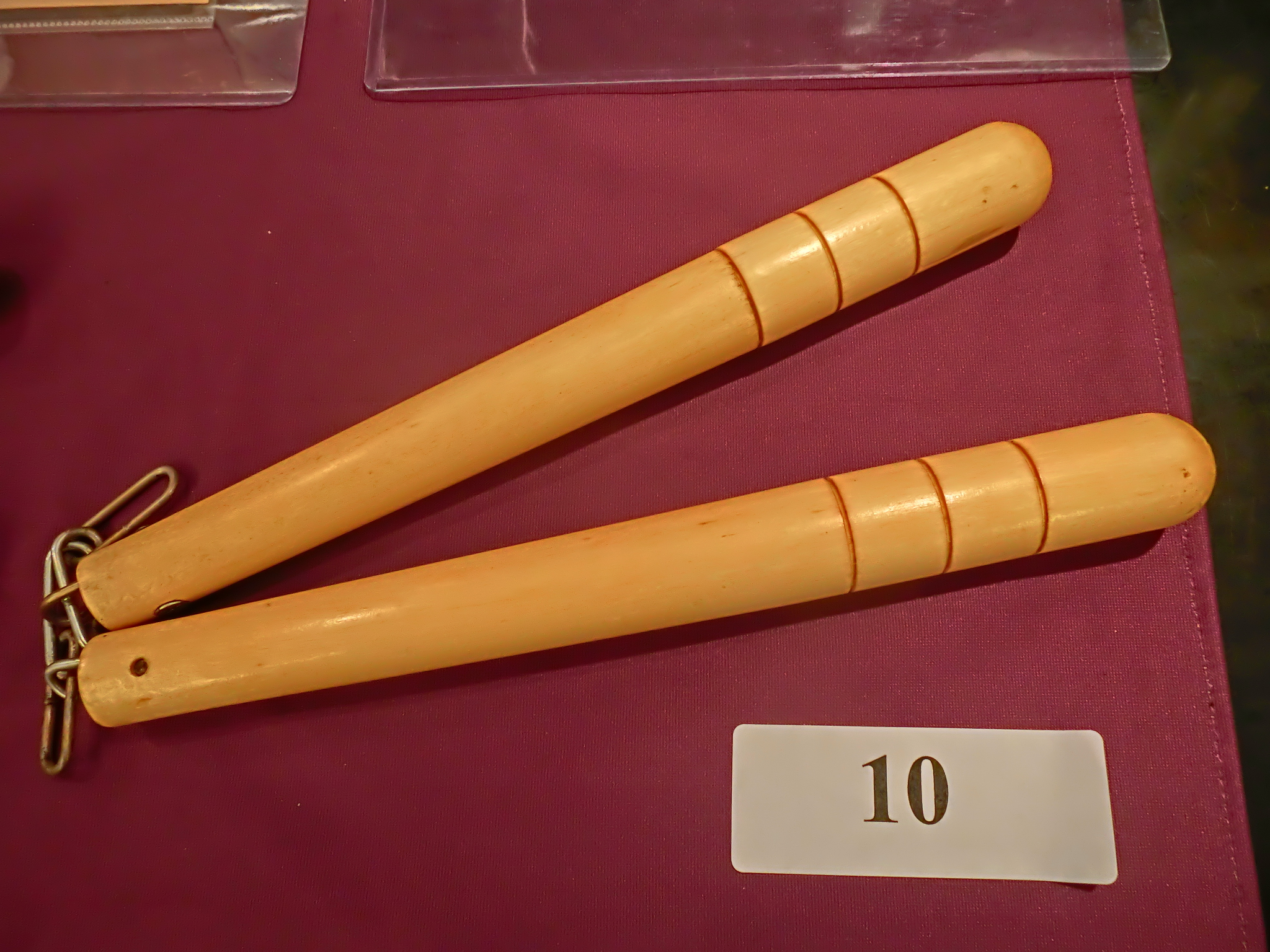 Mr Bruce Lee's belongs at Spink Auctions, 灣仔 馬來西亞大廈 Malaysia Building, No.50 Gloucester Road, Wan Chai, Hong Kong